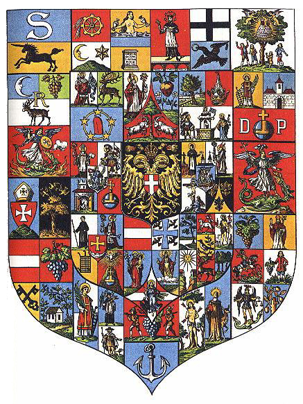 Composite arms of all villages and parishes in Vienna.